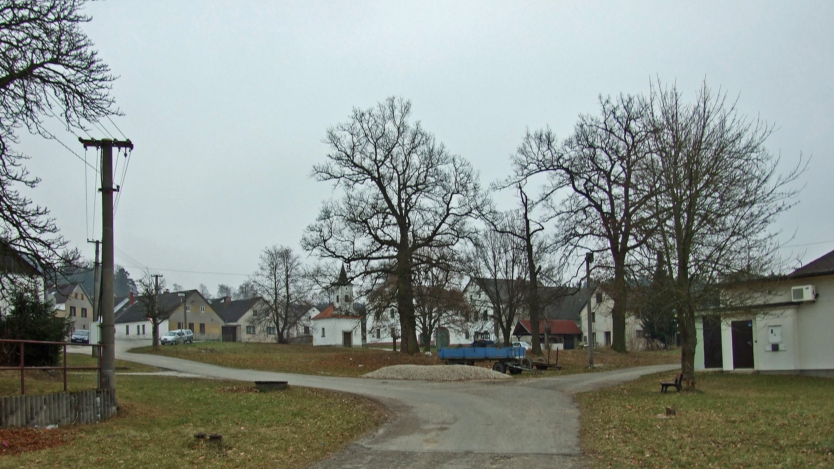 Hospříz, only a few kilometres east from Jindřichův Hradec, South Bohemian Region, CZhelp